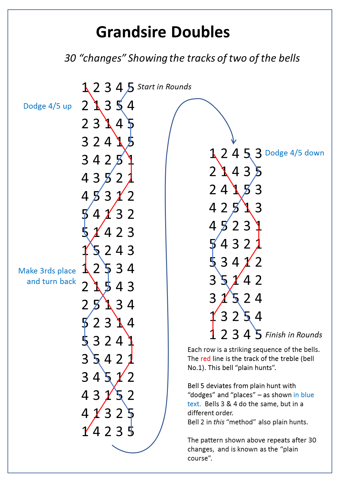 The plain course of Grandsire Doubles, which is rung on 5 bells, with normally a sixth bell ringing last to make it more musical (this bell not shown). The plain course will repeat and has to be extended by "call" from the conductor to reach the maximum permutations which is 1x2x3x4x5 = 120.changes. Grandsire is a double hunt method, (bells 1 and 2 are plain hunting) and is one of the oldest known change ringing methods.